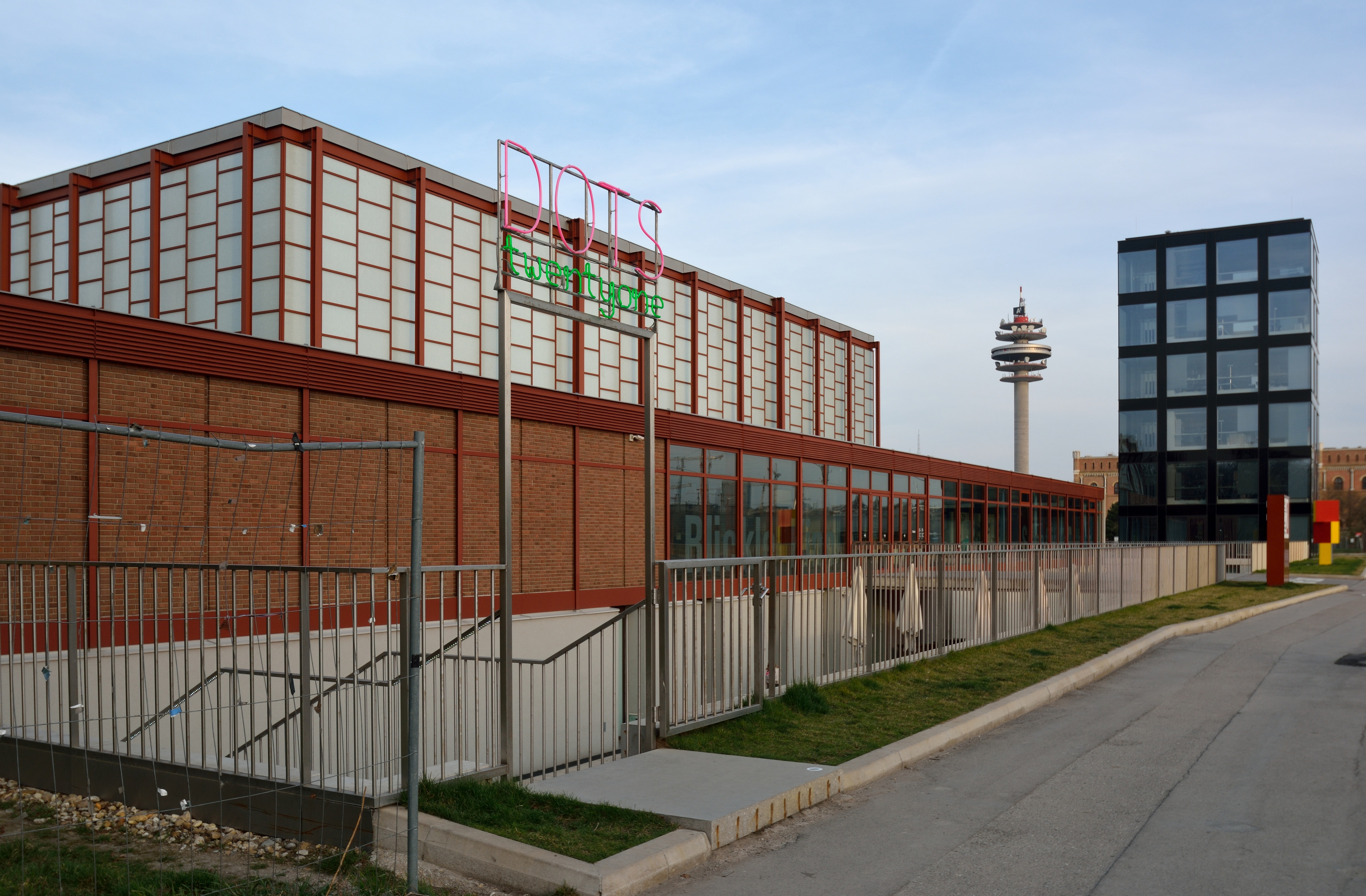 21er Haus, museum of contemporary arts, in the background the Arsenal and the Funkturm (radio transmitter), 3rd district of Vienna